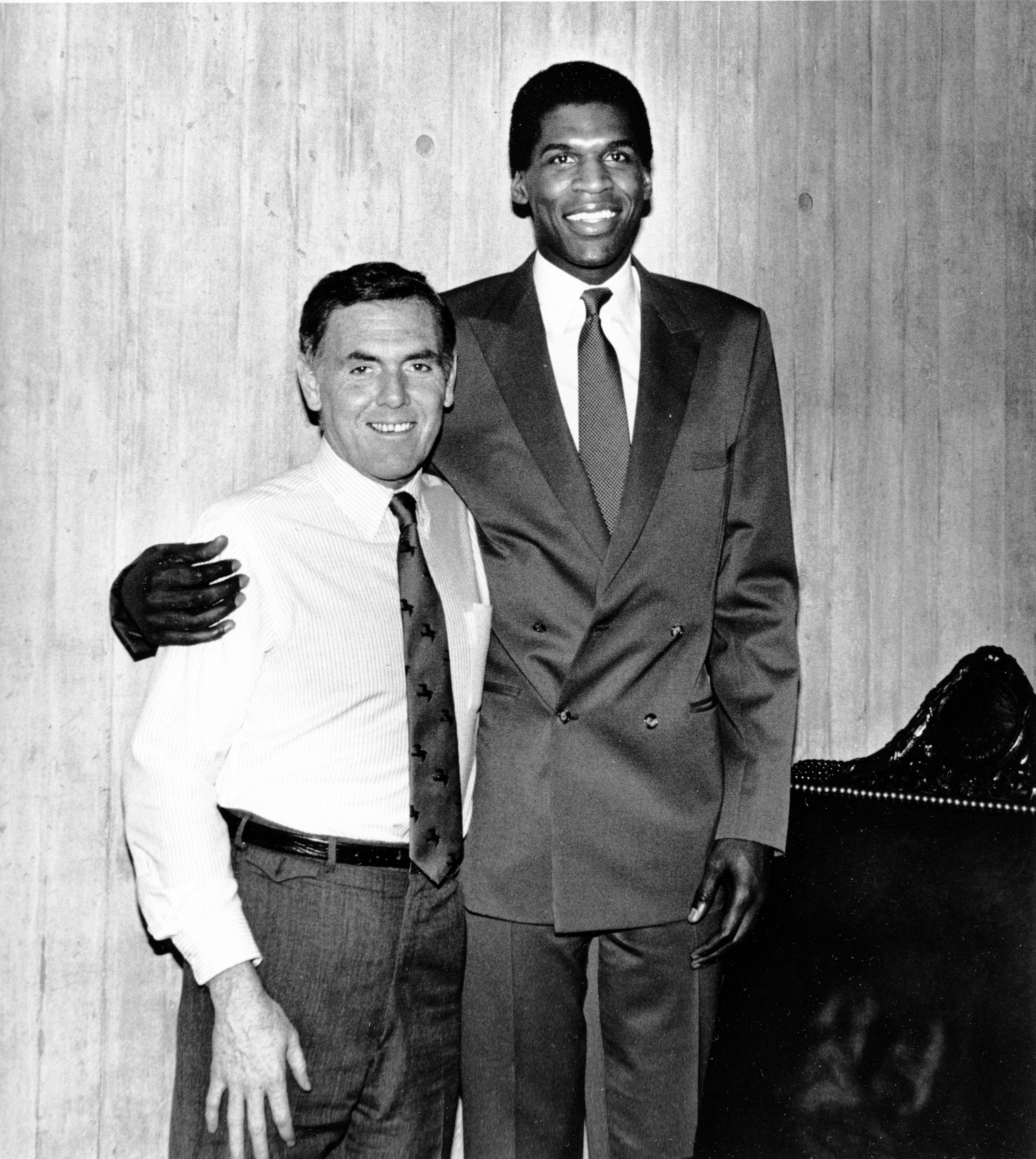 Title: Mayor Raymond L. Flynn and Robert Parish Creator: Mayor's Office - City Photographer Date: circa 1984-1987 Source: Mayor Raymond L. Flynn records, Collection #0246.001 File name: RF_014 Rights: Copyright City of Boston Citation: Mayor Raymond L. Flynn records, Collection #0246.001, City of Boston Archives, Boston